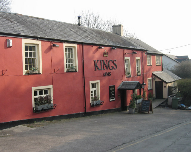 Kings Arms, Pentyrch. Located on the minor road from Pentyrch to the A4119 to the south.